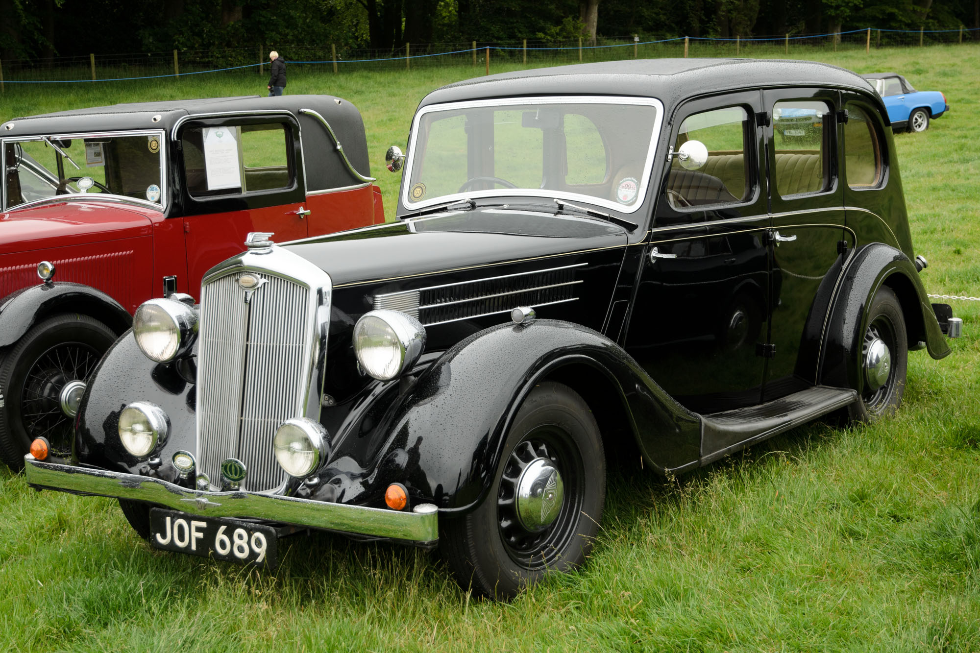 1948 Wolseley 14-60 saloon (DVLA) first registered 2 November 1948, 1818cc Hoghton Tower Classic Car Show 14/06/2015